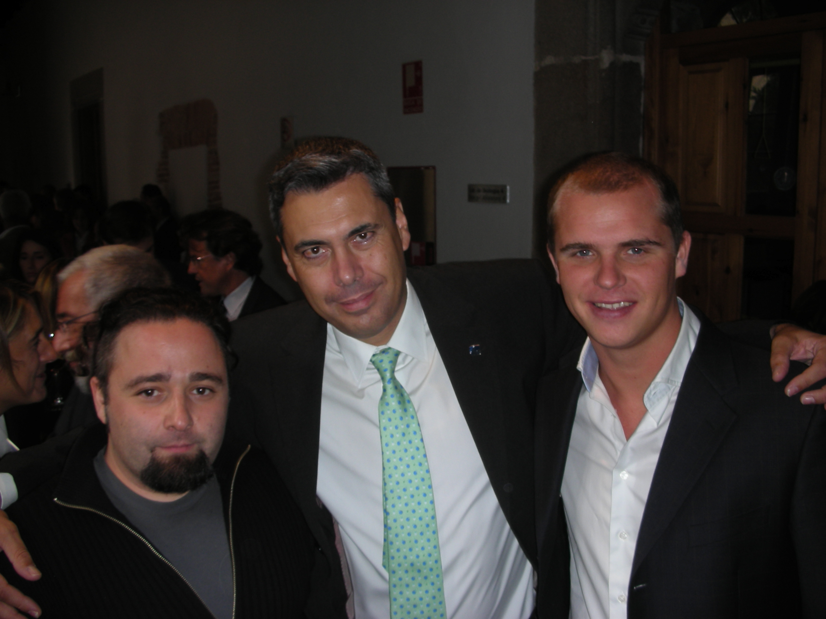 Ícaro Moyano, Enrique Dans and Zaryn Dentzel In the Opening Ceremony of the Academic Year 2008-2009 IE University